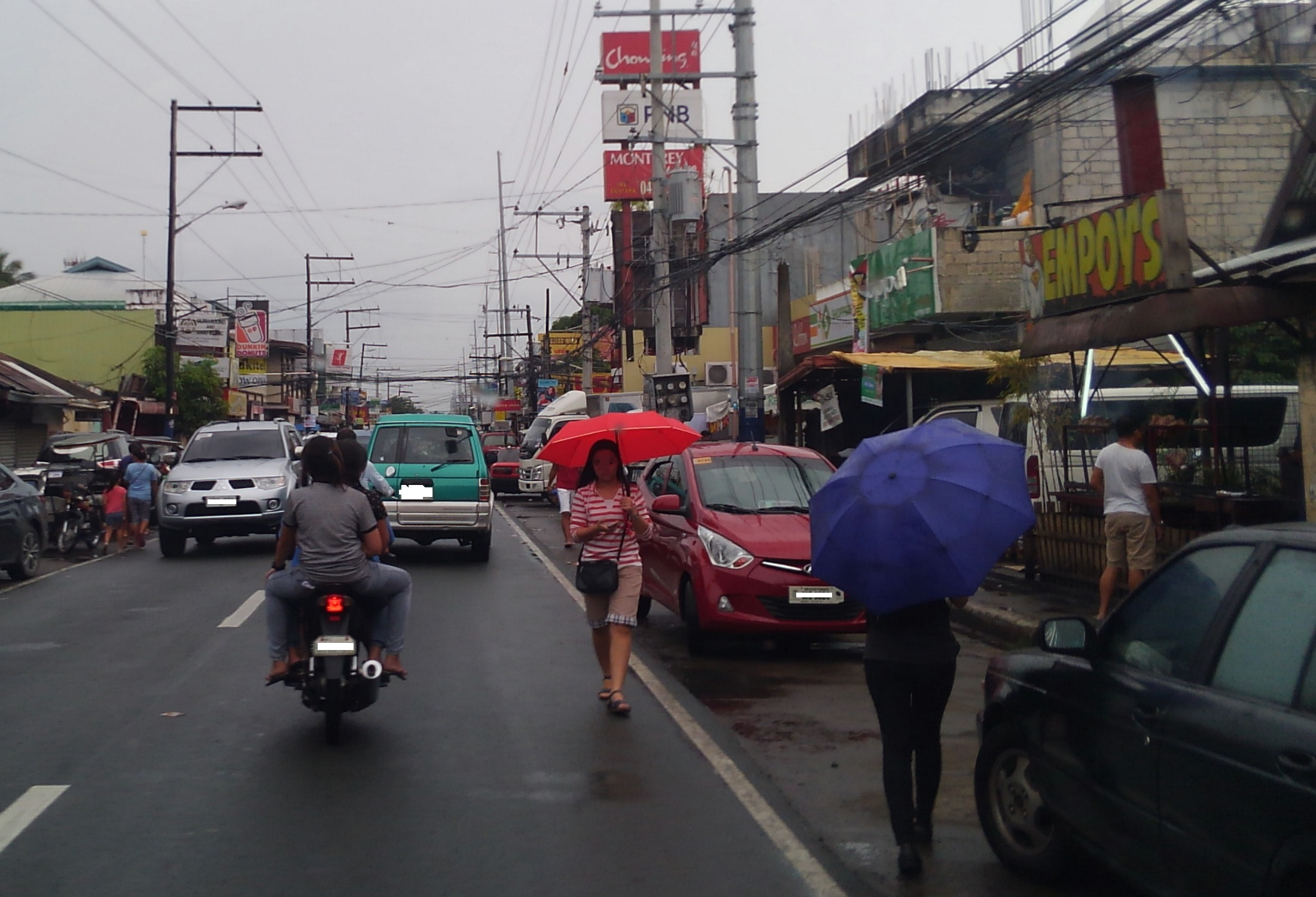 Nasugbu City, in the Philippine